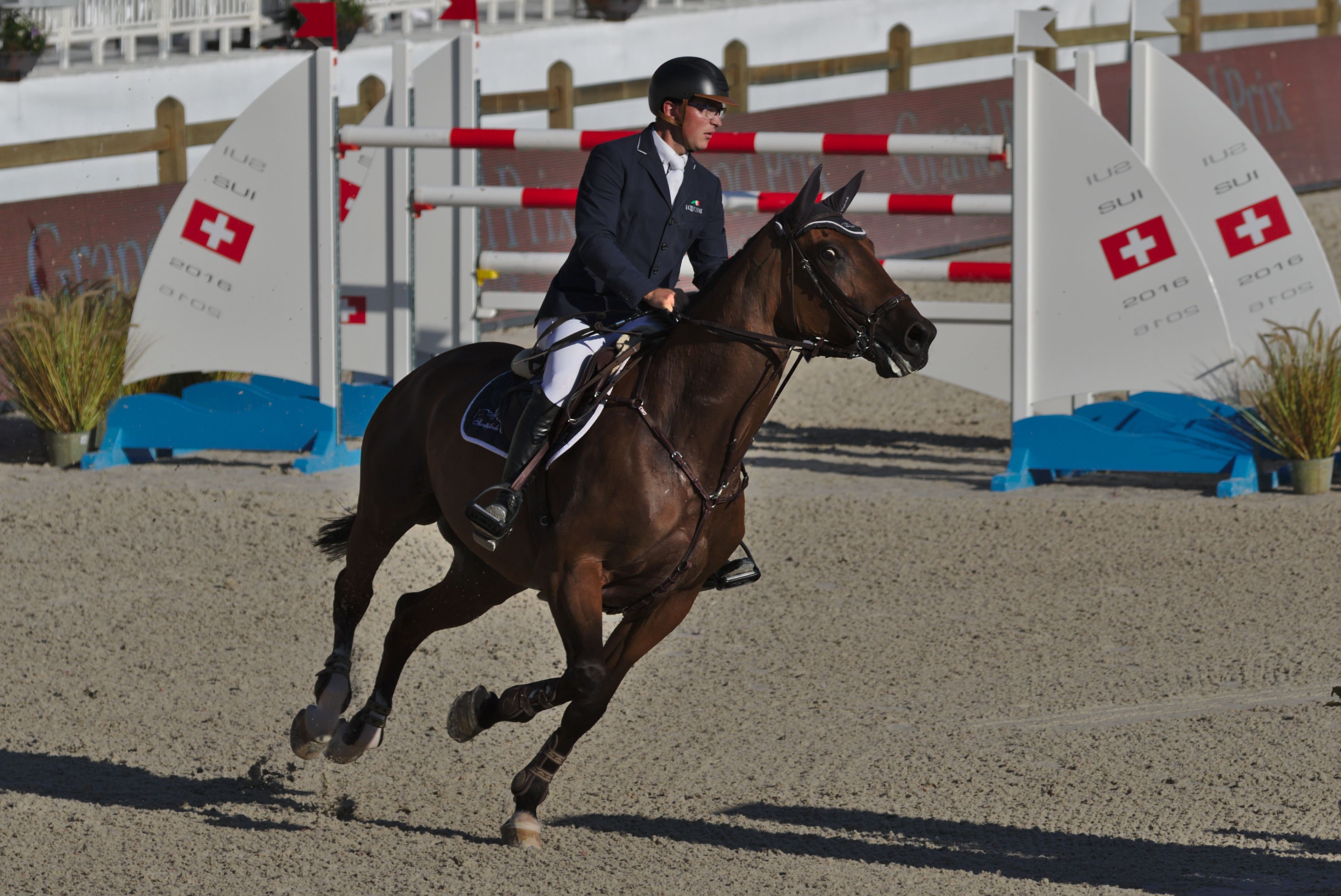 ILHS 2016 - 20160909 - Tobias Meyer et Cathleen